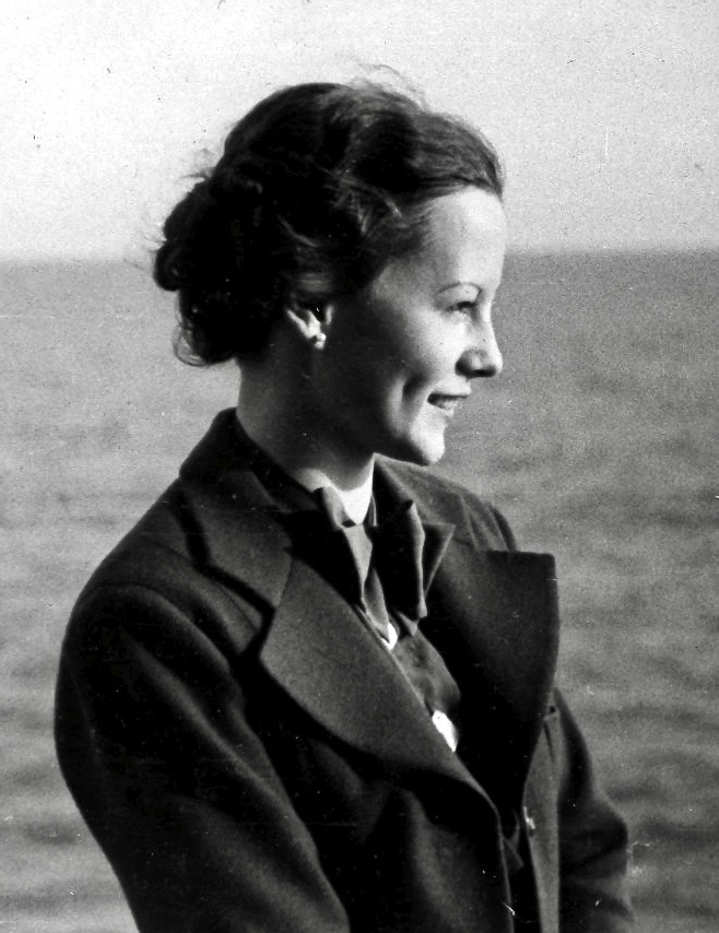 Ilse Riefenstahl (1913–2003), wife of Heinz Riefenstahl (1905–1944), circa 1936